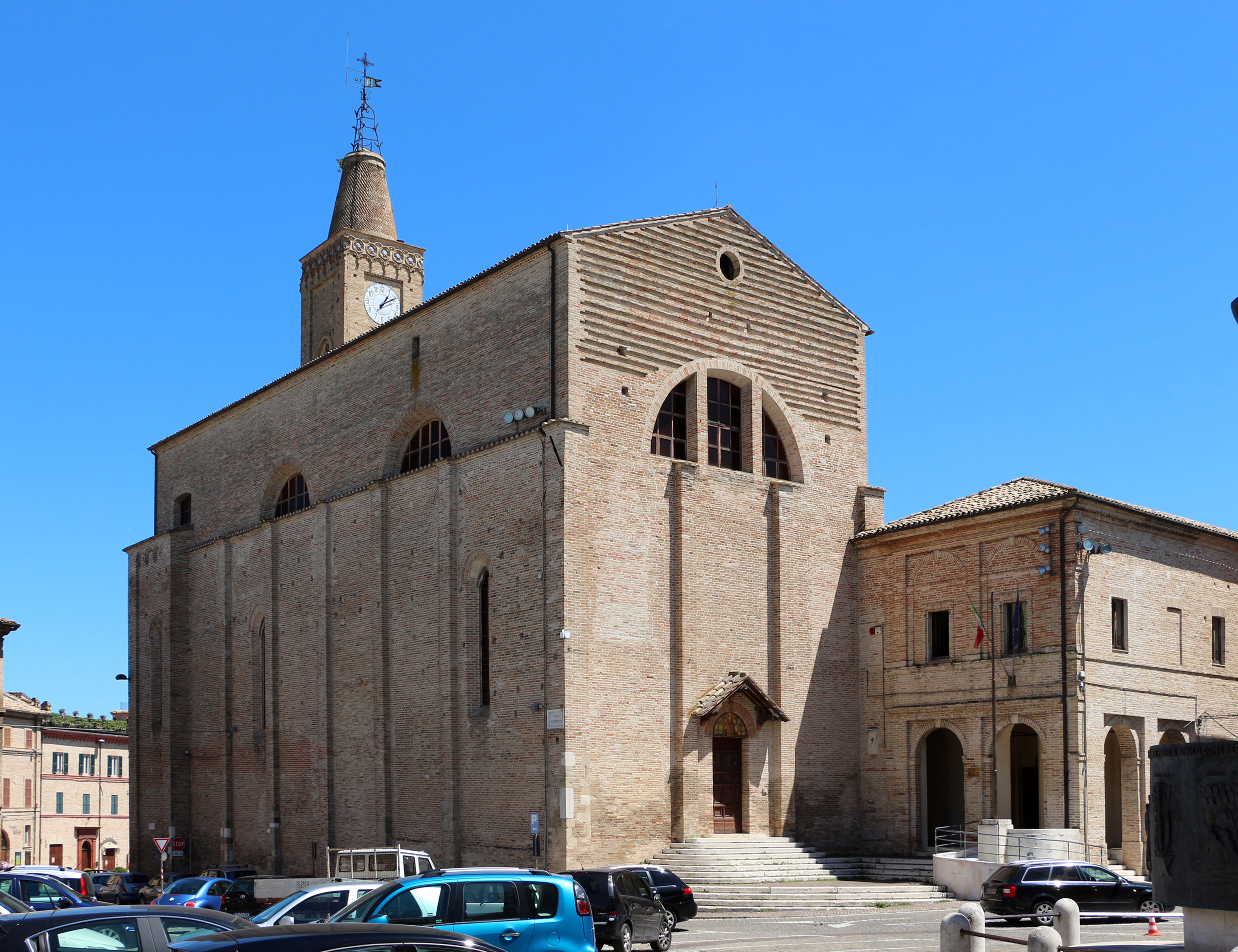 Corridonia